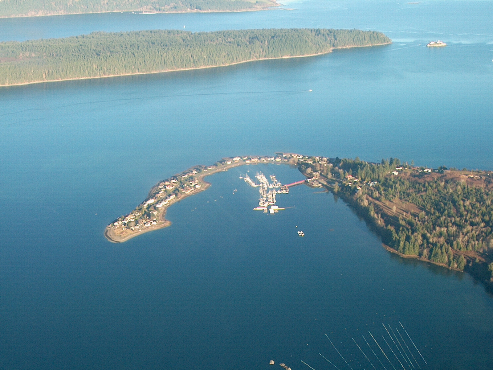 This is a photo I took December 27, 2005. It shows Deep Bay Harbour (Marina) surrounded by the Deep Bay Spit. The south tip of Hornby Island with Chrome Island Light off its end is above and Denman Island is in the background. The streaks in the bottom of the photo are an Oyster Farm. Deep Bay is on Vancouver Island and is part of British Columbia Canada. The water off Deep Bay is Baynes Sound between Vancouver Island and Denman Island. The photo is taken roughly East. Photo 1 of 2